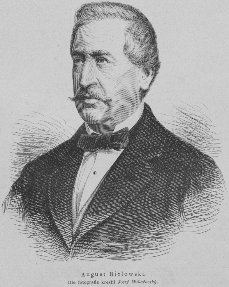 Portrait of August Bielowski, Polish historian and writer.